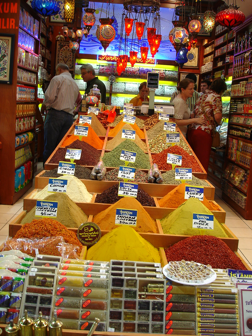 The colourful Spice bazaar (or "Egyptian Bazaar") in Istanbul. Picture by: Giovanni Dall'Orto, May 30 2006.